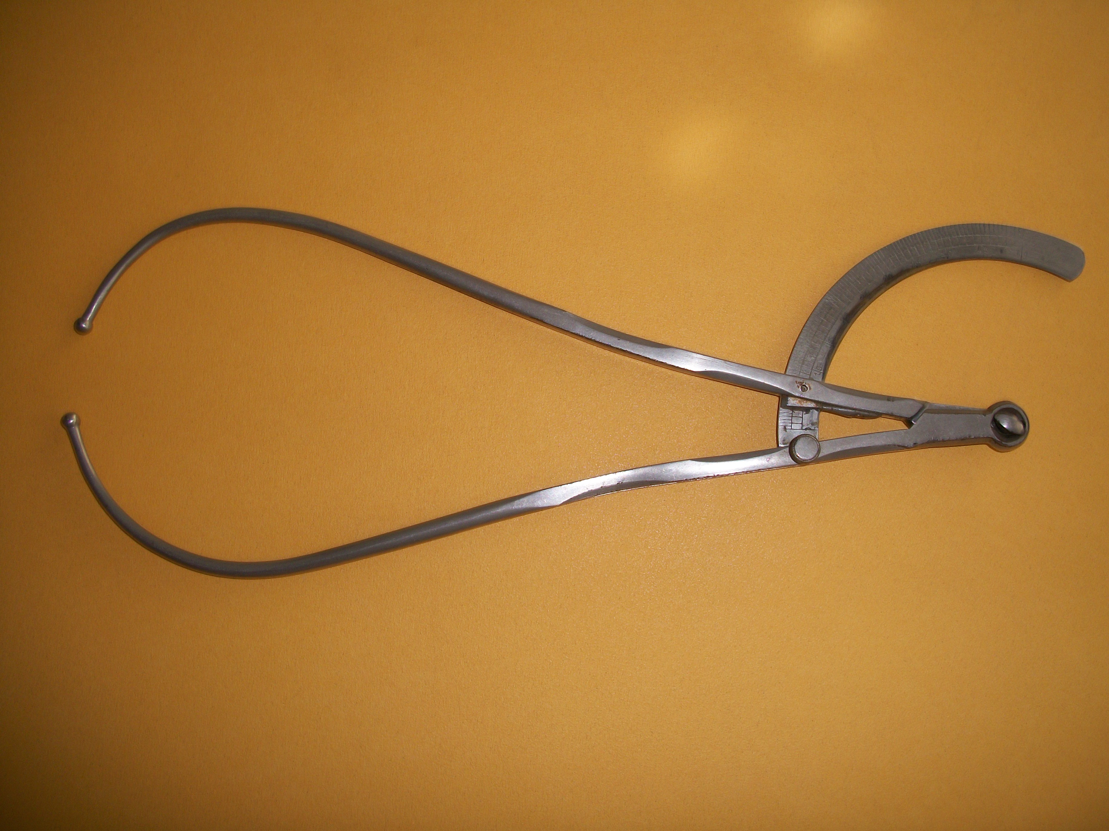 Pelvimeter